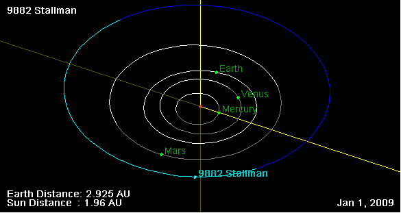 9882 Stallman orbit, and its position on 01 Jan 2009 (NASA Orbit Viewer applet)